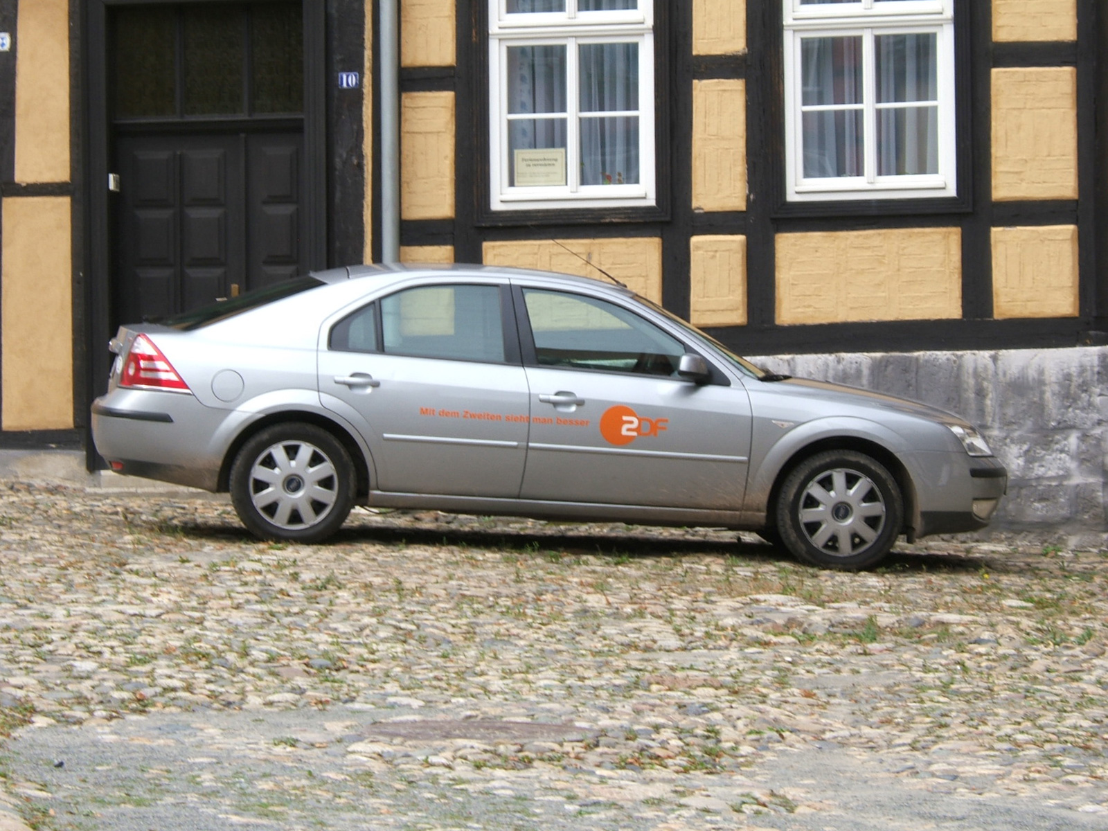 Company car of the ZDF in Quedlinburg